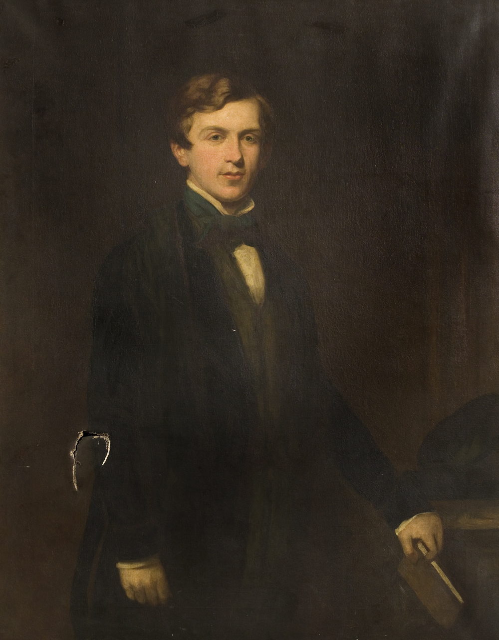 Oil on canvas painting of Sir Henry Jackson, 2nd Baronet by Thomas Henry Illidge